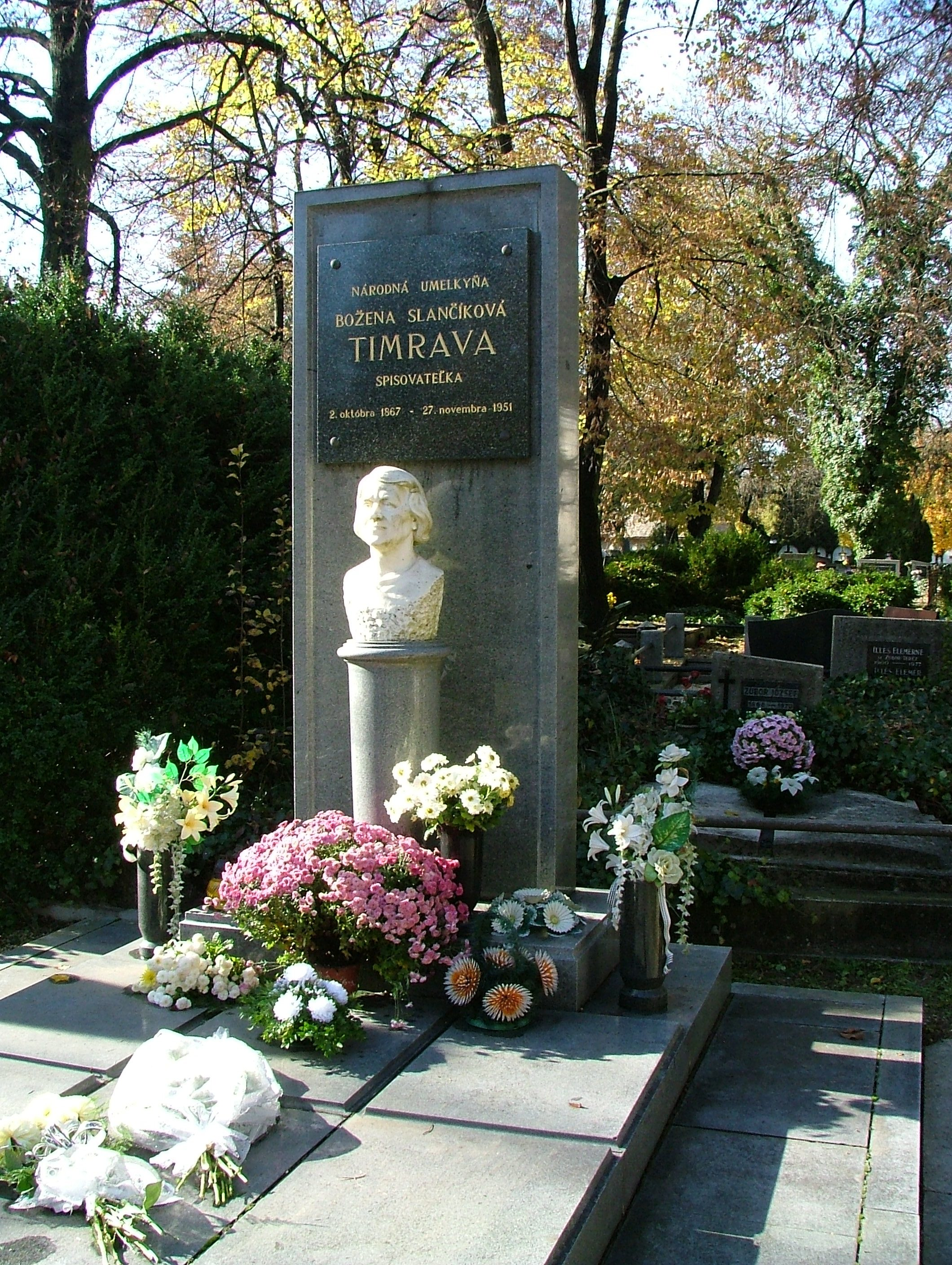 Timrava tomb Lucenec